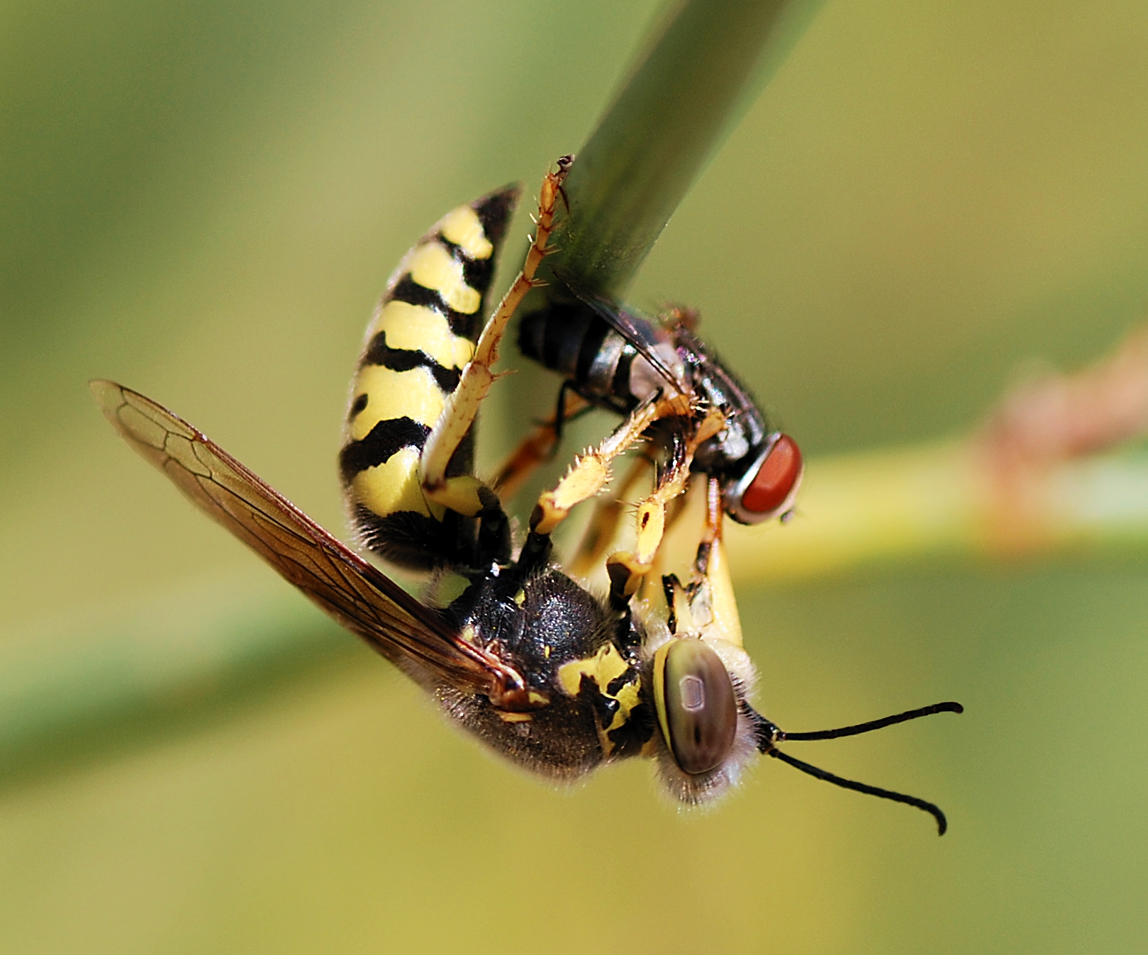 Wasp of the Crabronidae family (Bembix oculata) feeding on a fly. It is common for many Bembix species, to use the exceptionally long labrum to suck the blood out of the prey before butchering it to feed the solid tissues to the larvae.